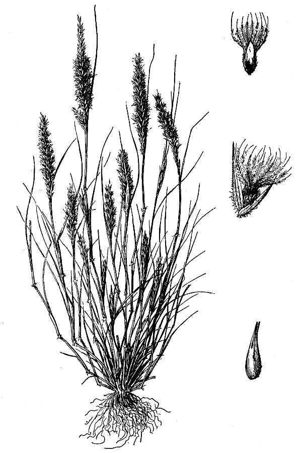 Enneapogon desvauxii from Hitchcock, A.S. (rev. A. Chase). 1950. Manual of the grasses of the United States. USDA Miscellaneous Publication No. 200. Washington, DC. 1950.